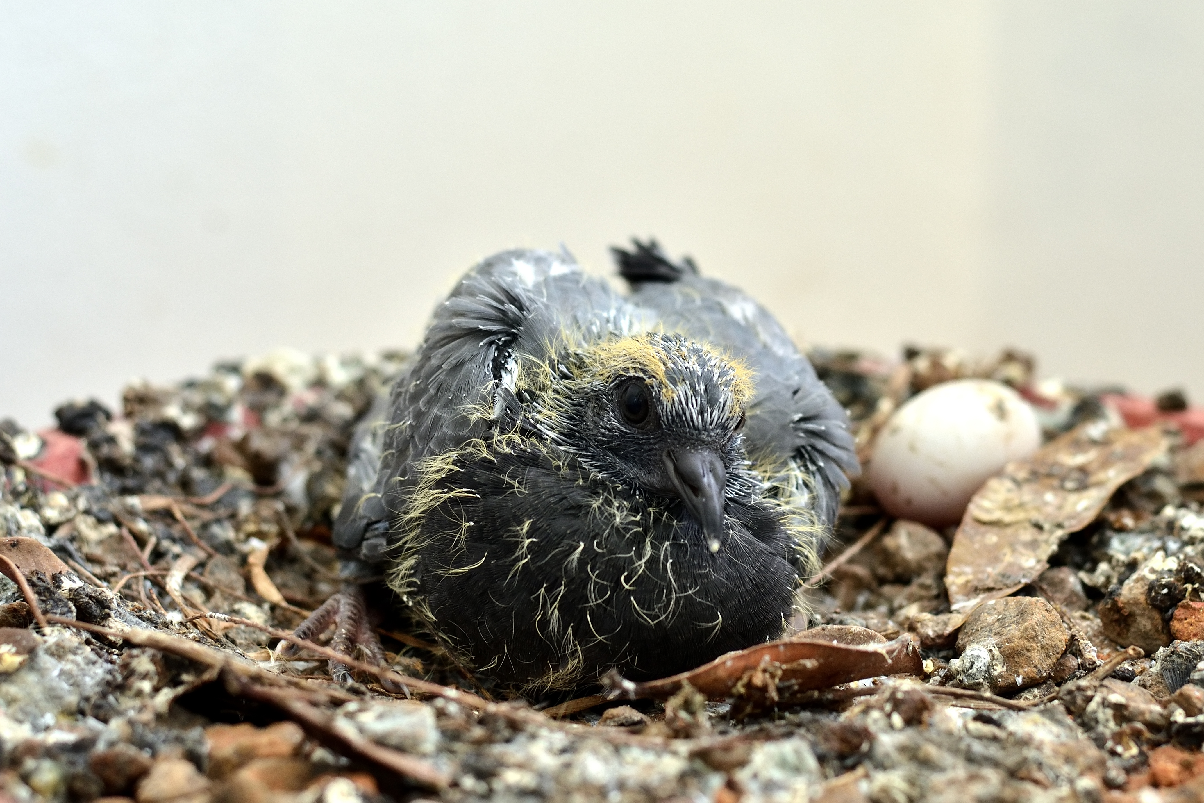 Rock dove 18 days old in its nest and one egg